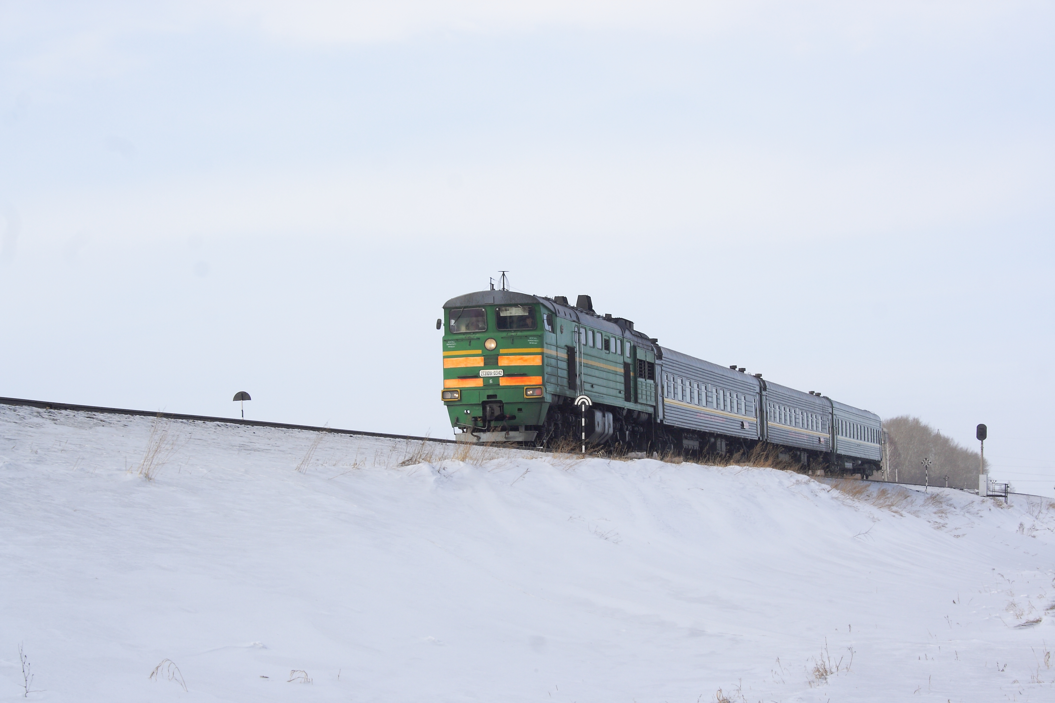 Express train Kalina krasnaya